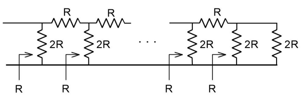 Red R-2R